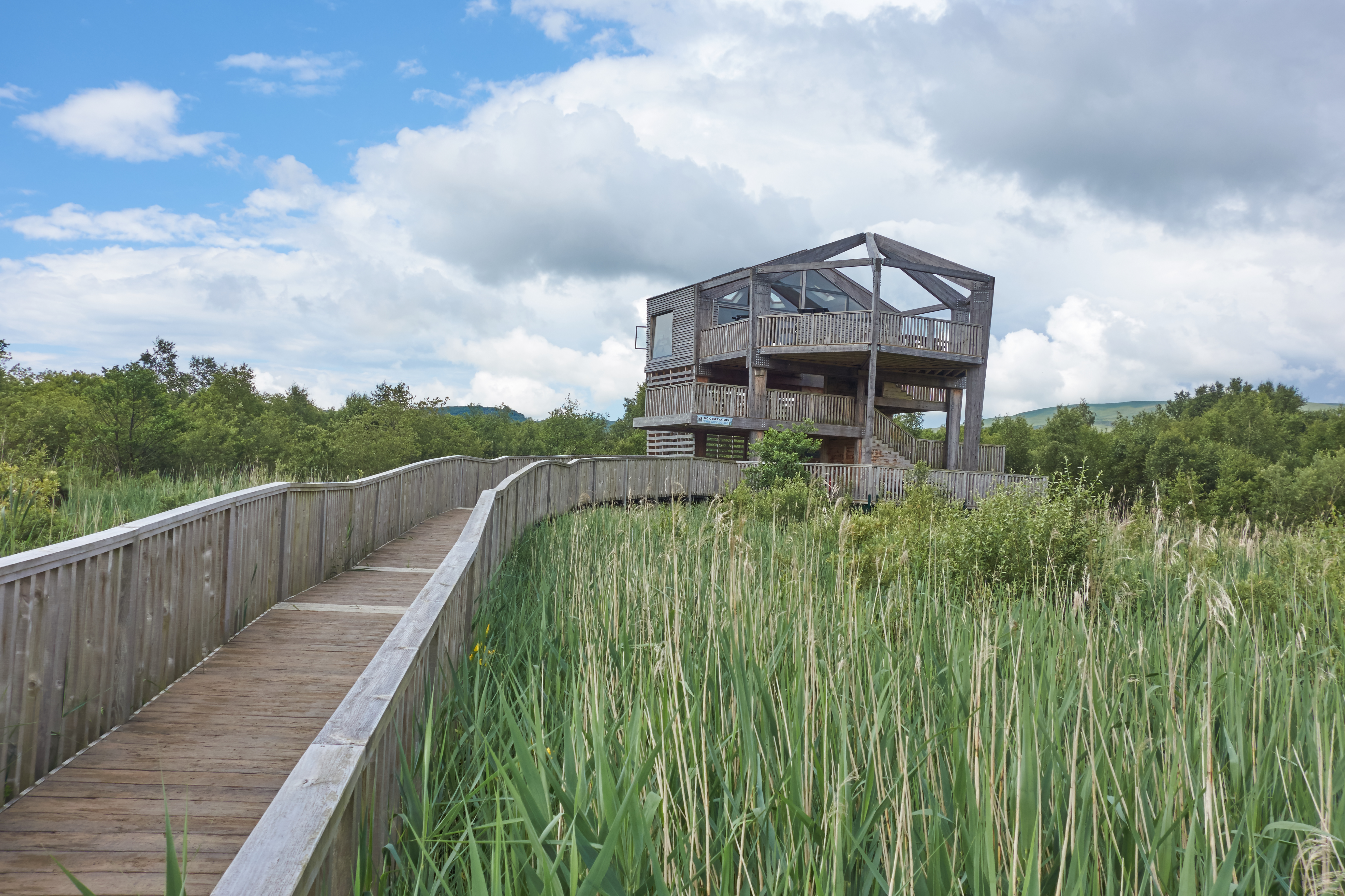 360 view hide, Cors Dyfi nature reserve